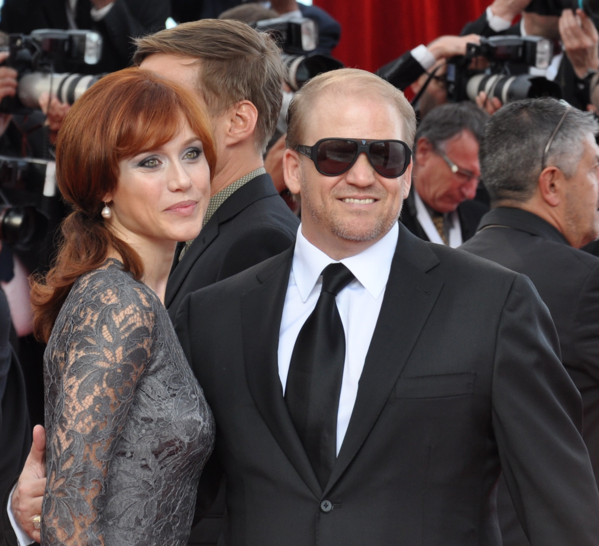 Gabriella Pession and Edward Allen Bernero at the 2013 Monte-Carlo Television Festival.